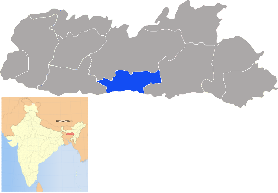 Locator map of South West Khasi district of the Indian state of Meghalaya.